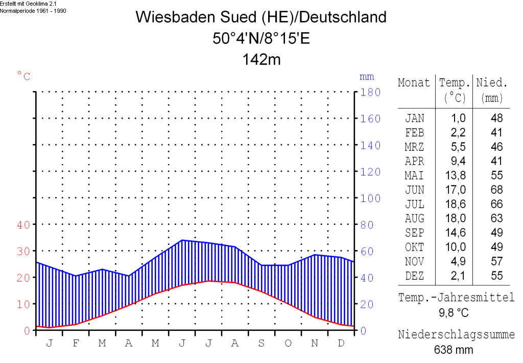 climate chart in the format by Walter and Lieth, metric, °Celsisus and millimeters, made with Geoklima 2.1